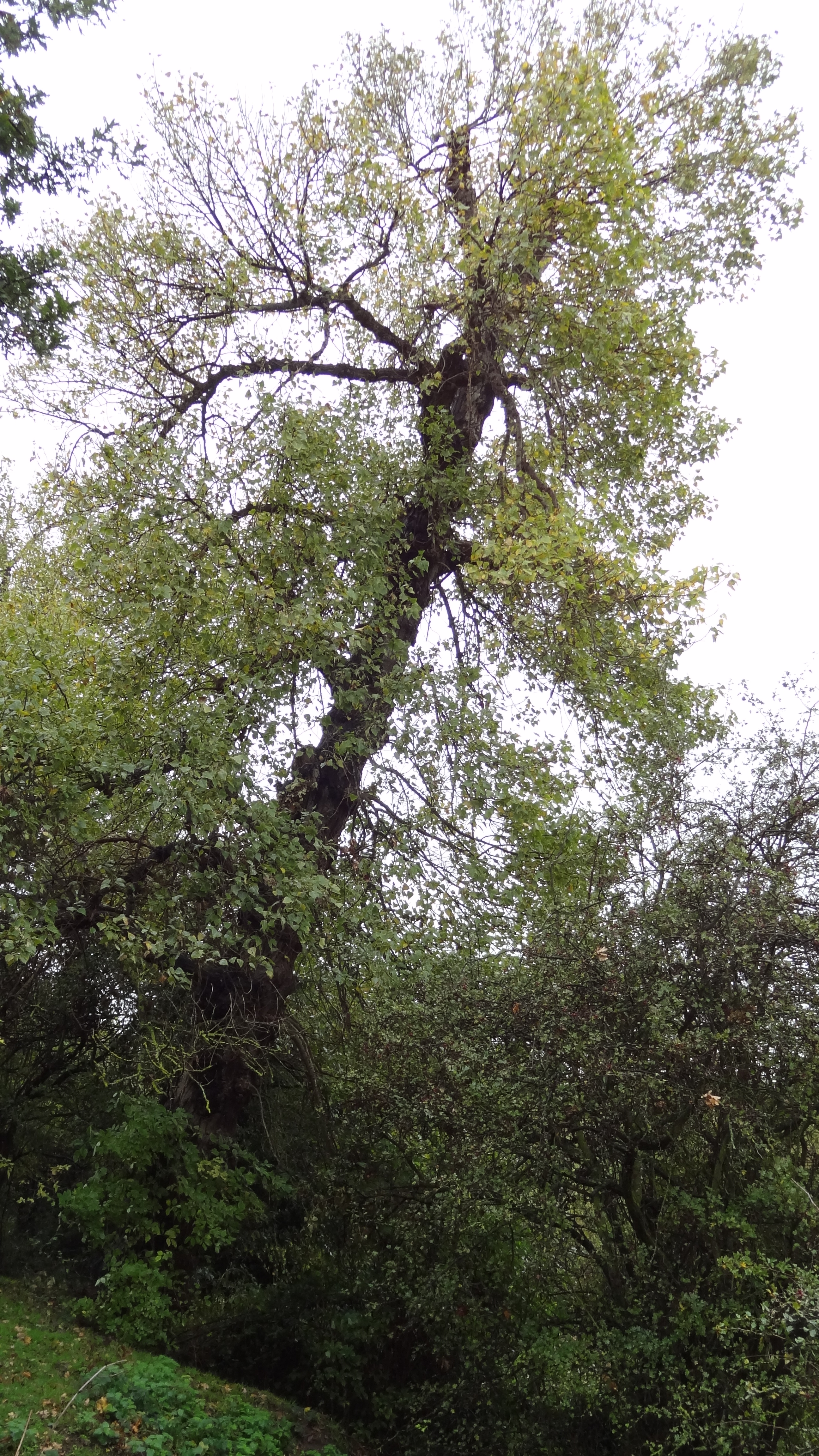 Black Poplar, the rarest native British tree, in The Chase Nature Reserve in Dagenham, London